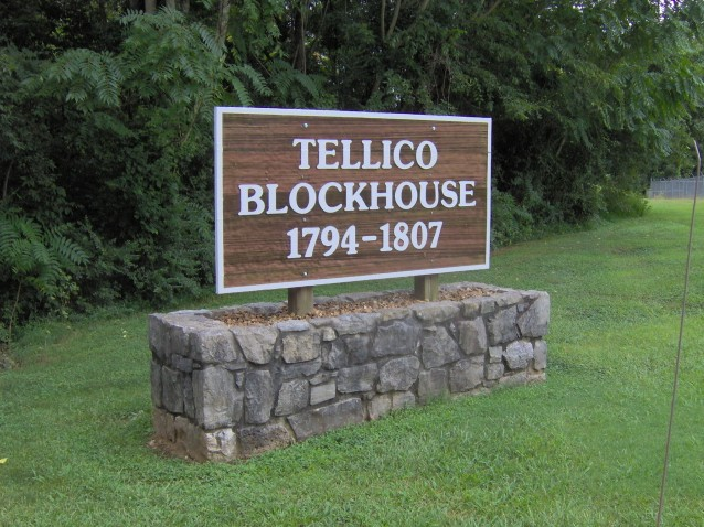 Sign marking the entrance to the Tellico Blockhouse State Historic Area, near Vonore, Tennessee. Image by Brian Stansberry.